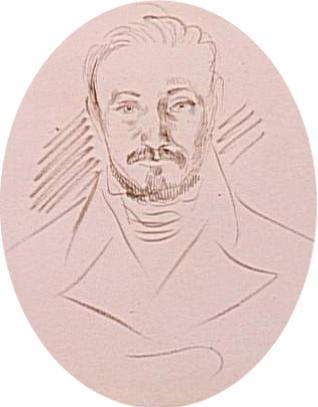 Artist Eugène Delacroix (1798–1863) Alternative names Ferdinand-Victor-Eugène DelacroixDescriptionFrench painter, draughtsman, aquarellist and photographerDate of birth/death 26 April 1798 13 August 1863Location of birth/death Charenton-Saint-Maurice ParisWork location Paris, United Kingdom, France, Algeria, Morocco, Netherlands (1839), BelgiumAuthority control : Q33477 VIAF: 7389086 ISNI: 0000 0001 2098 8878 ULAN: 500115509 LCCN: n79086855 NLA: 35034640 WorldCat creator QS:P170,Q33477Title